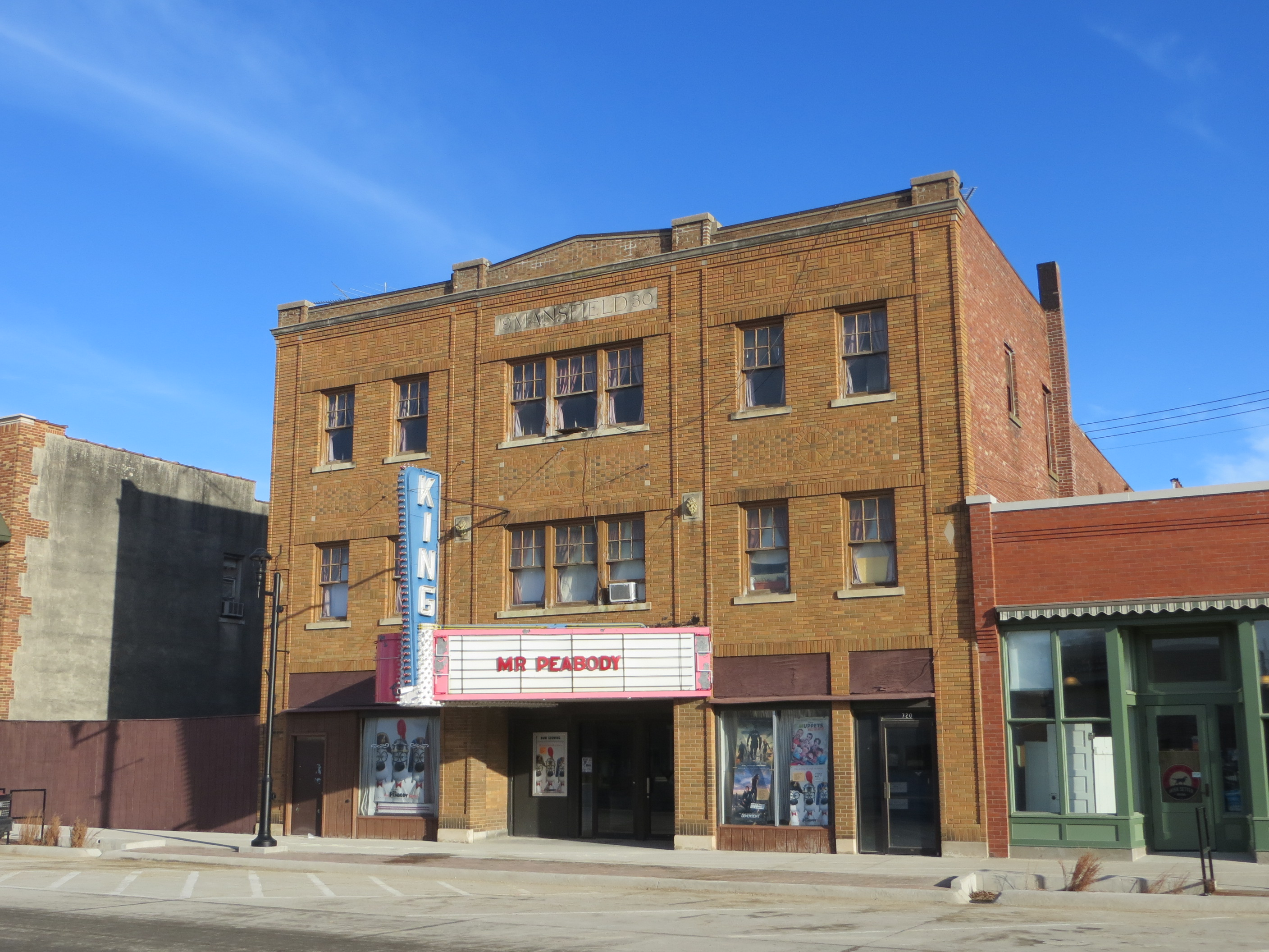 King Theatre Belle Plaine Iowa